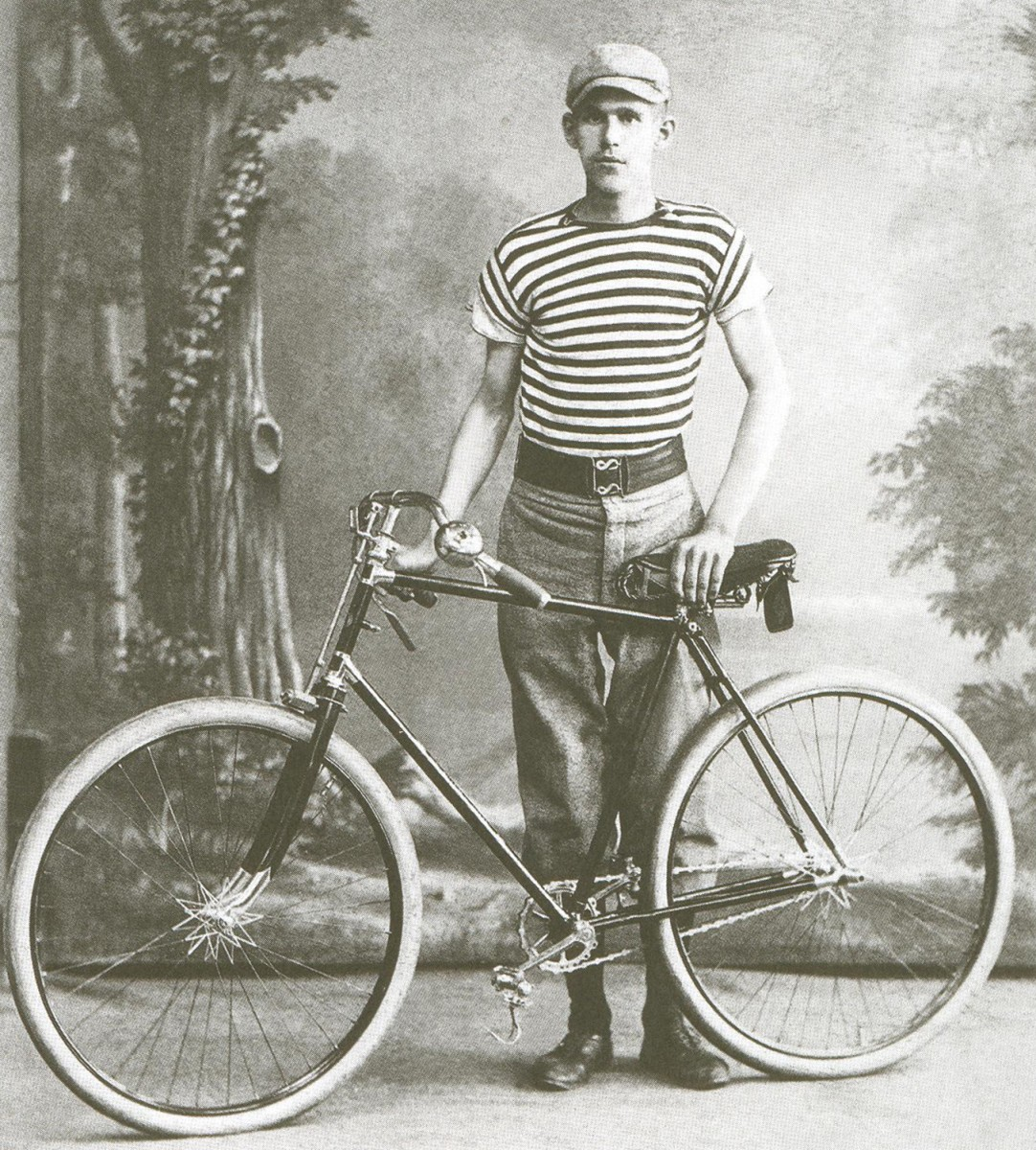 Minsk city.